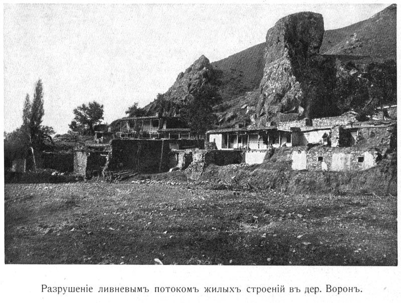 Village Voron, mudslide destroyed in 1911, Sudak region, Crimea